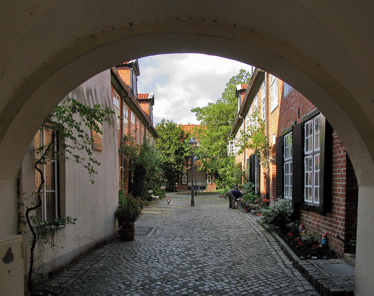 Haasen Courtyard Lübeck